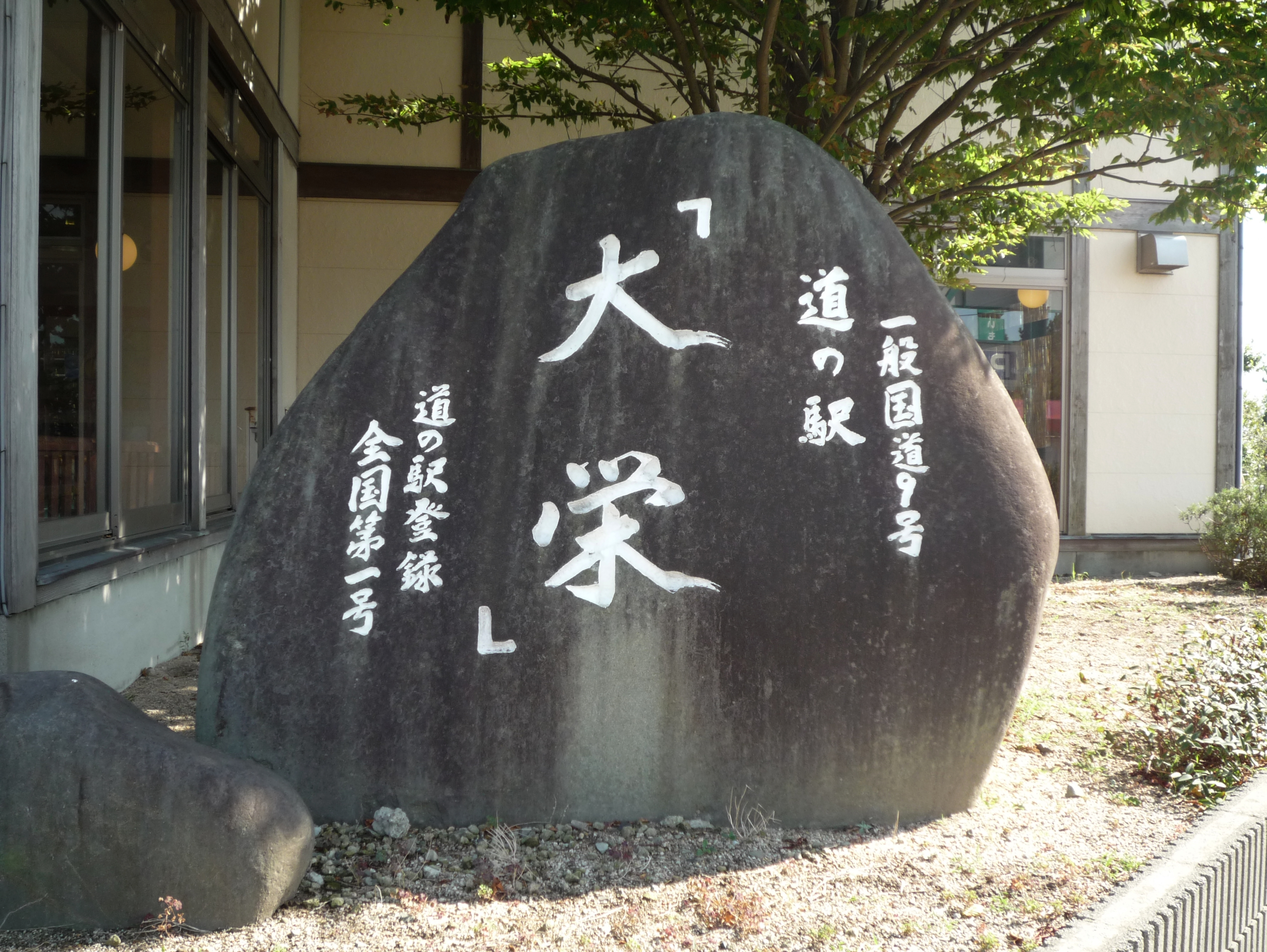 Stone monument of Roadside Station Daiei, Hokuei, Tōhaku District, Tottori Prefecture, Japan.